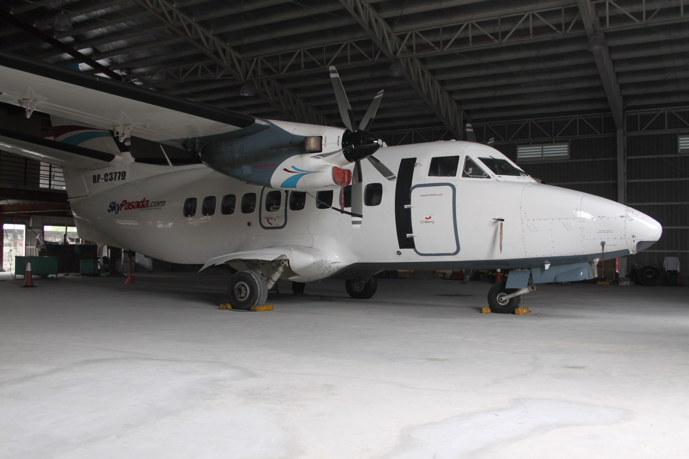 At Manila Ninoy Aquino International